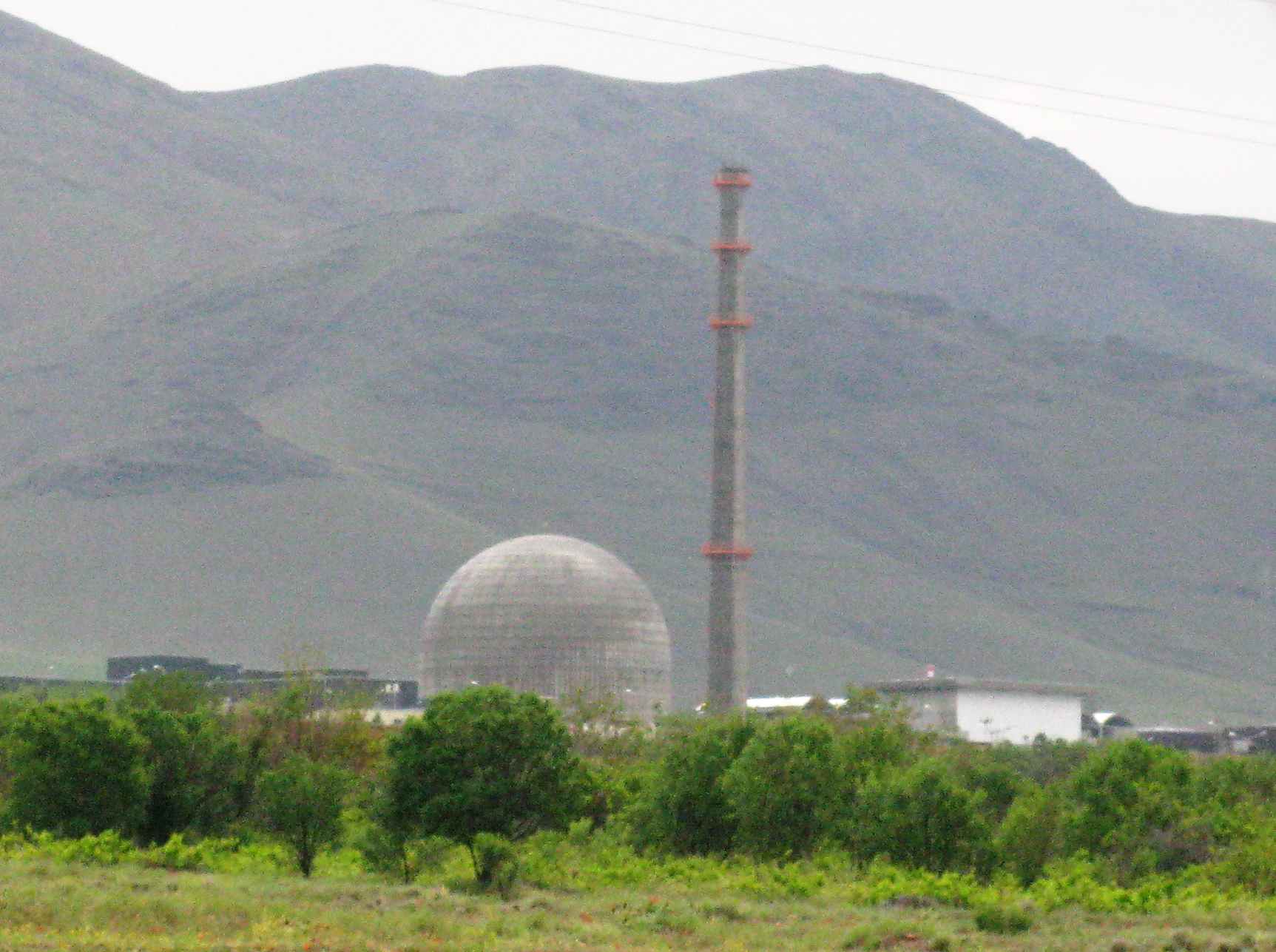 IR40 Heavy Water reactor facility, near Arak, Iran.